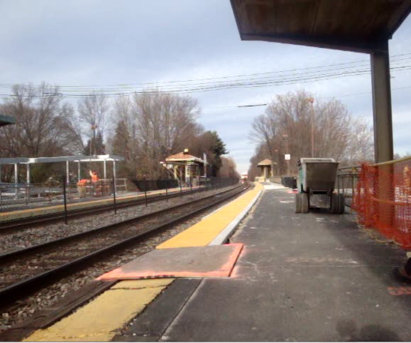 Wedgemere during construction in early January 2012